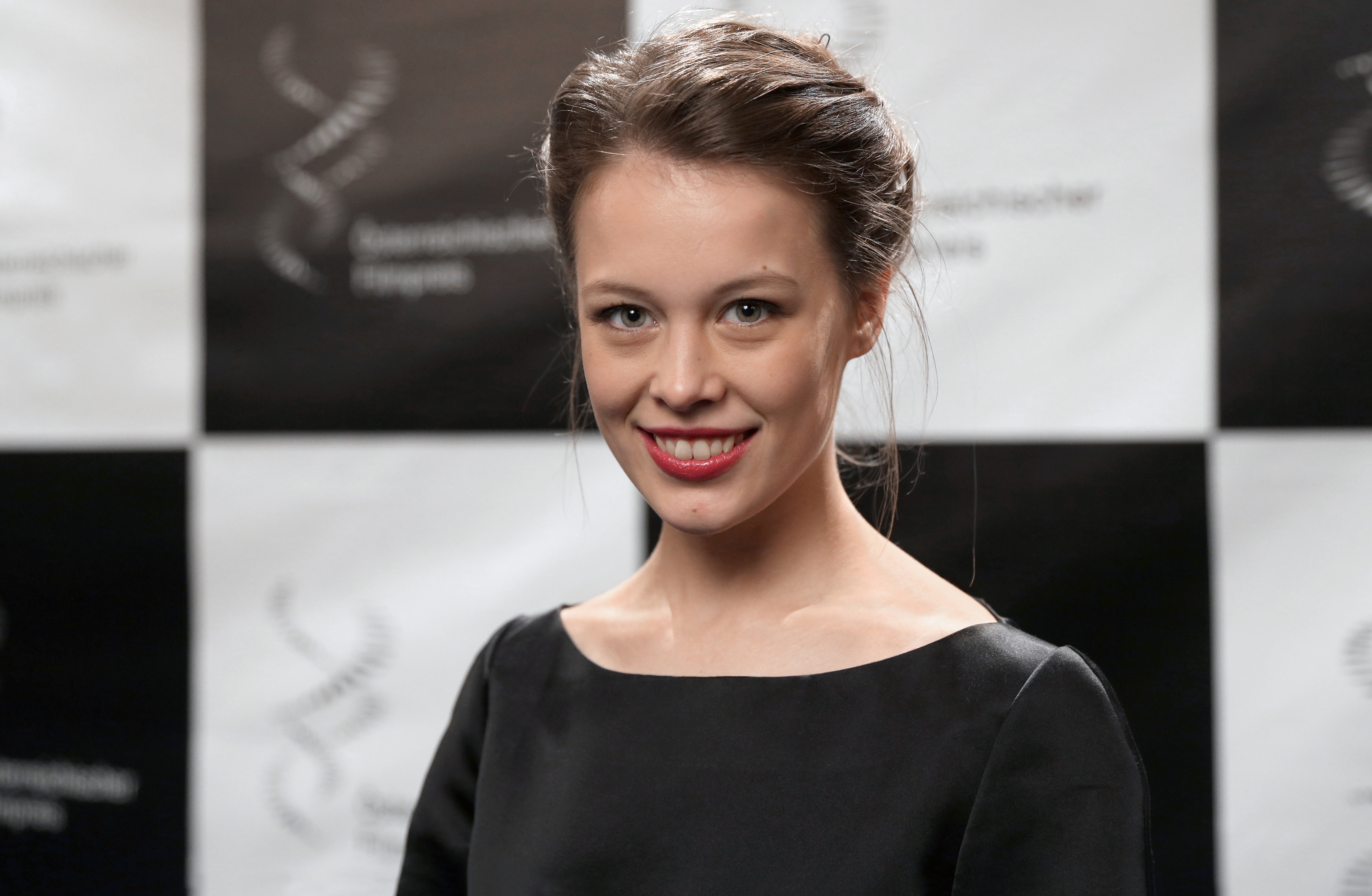 Paula Beer, nominee as best actress in The Dark Valley, at the Austrian Film Awards 2015 at Rathaus, Vienna,Austria.